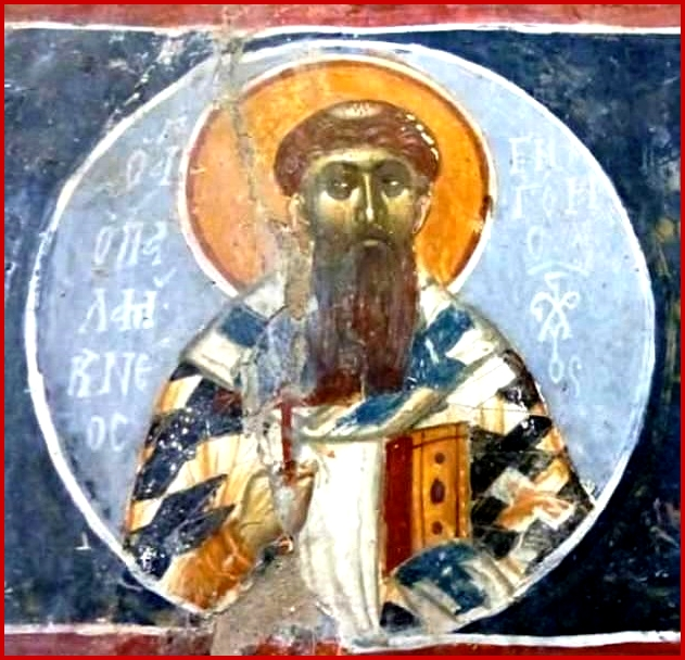 Gregory Palamas Fresco from Saint George Church in Kastoria, 14th Century